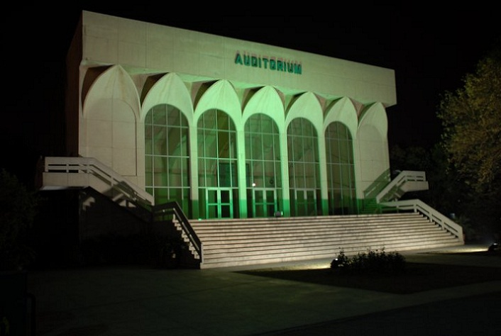 Main gate picture. This gate was built in January 2010 and the given picture is snapped by me on May 12th of 2010 at 2215 hrs PST. This picture is a main gate of Allama Iqbal Medical College Lahore.